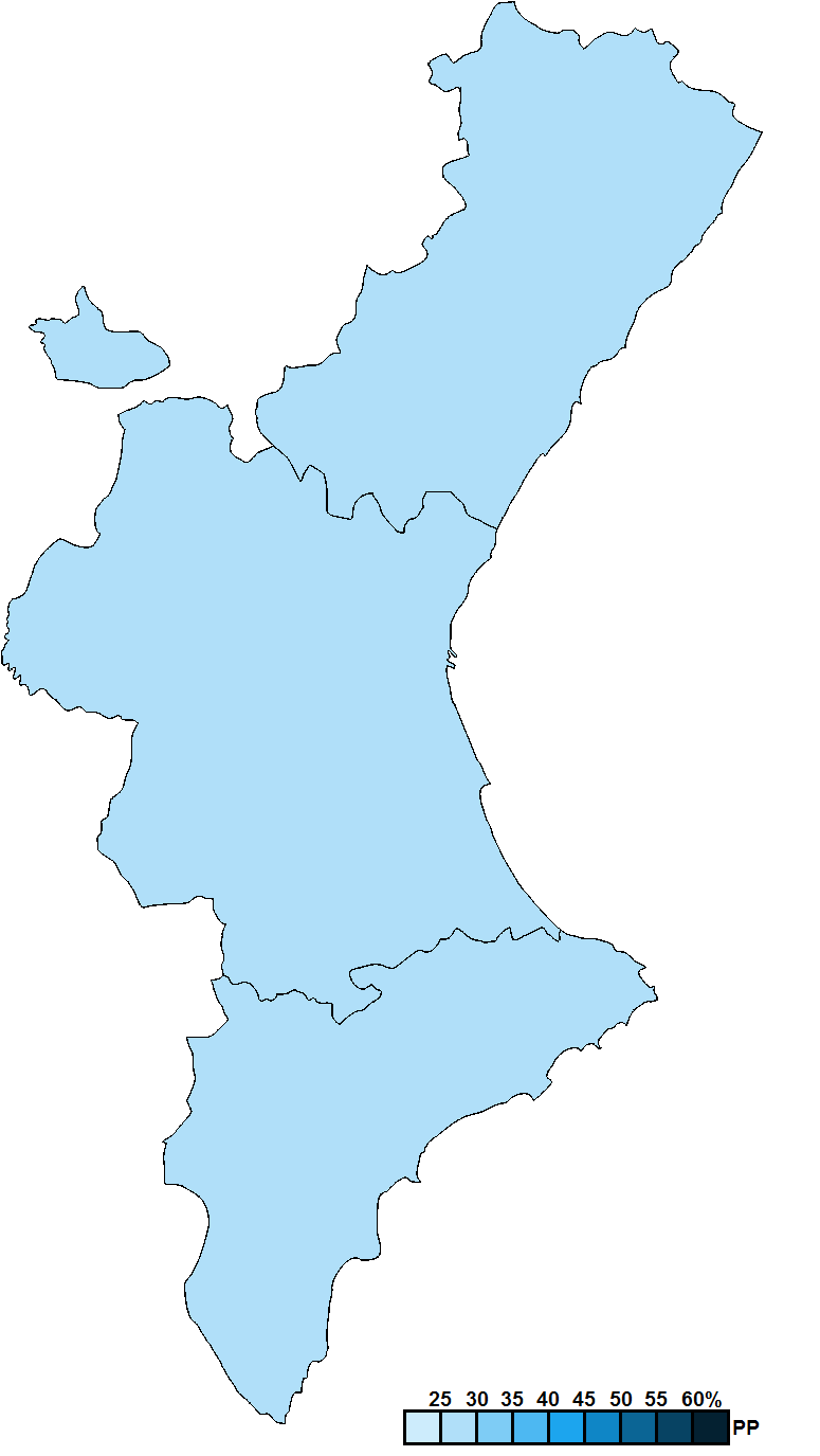 Provincial results for the 2015 Valencian regional election.